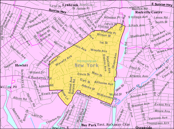 U.S. Census 2000 reference map for East Rockaway, New York